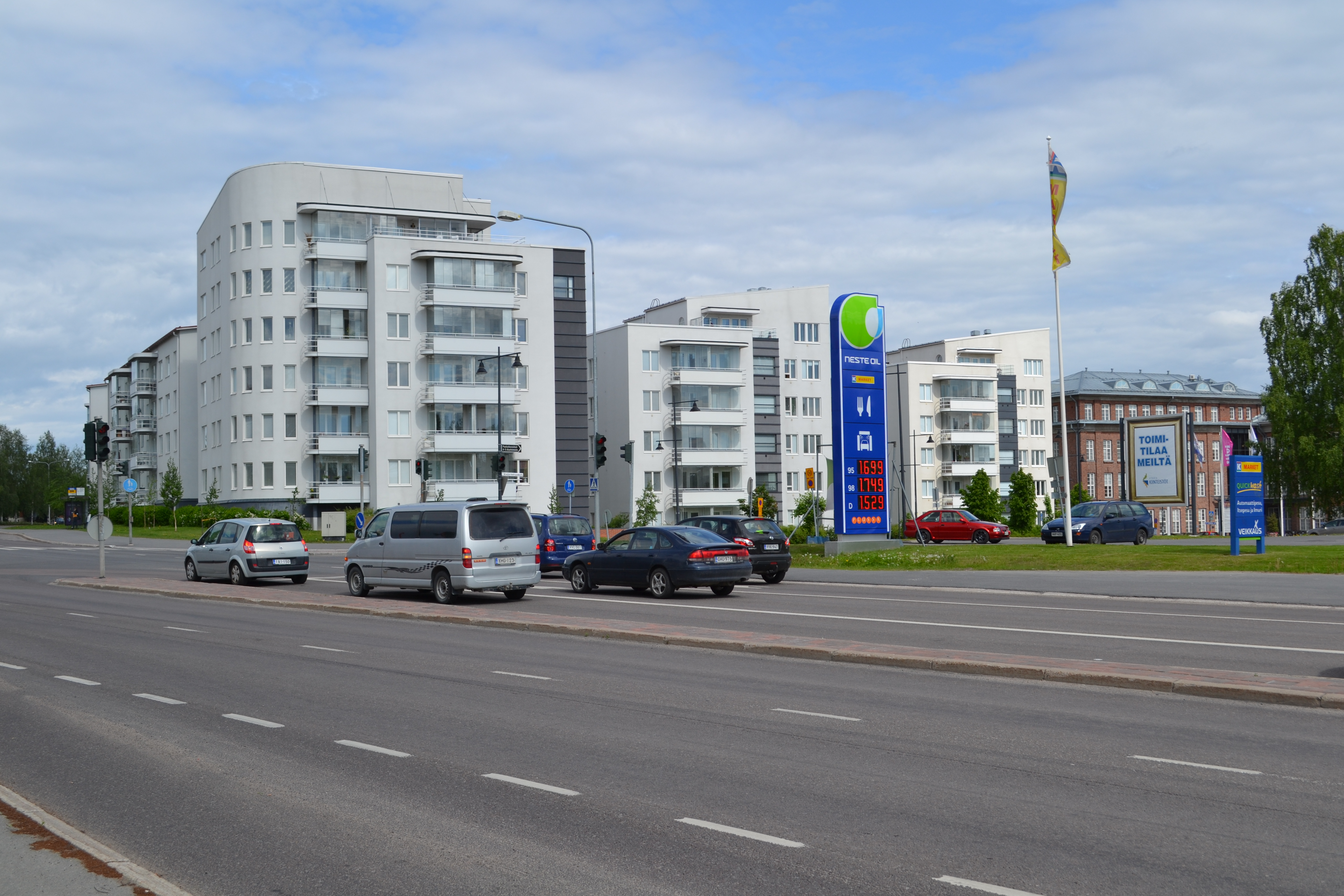 Apartment buildings built in the 21st century and an old former rifle factory in Tourula, Jyväskylä